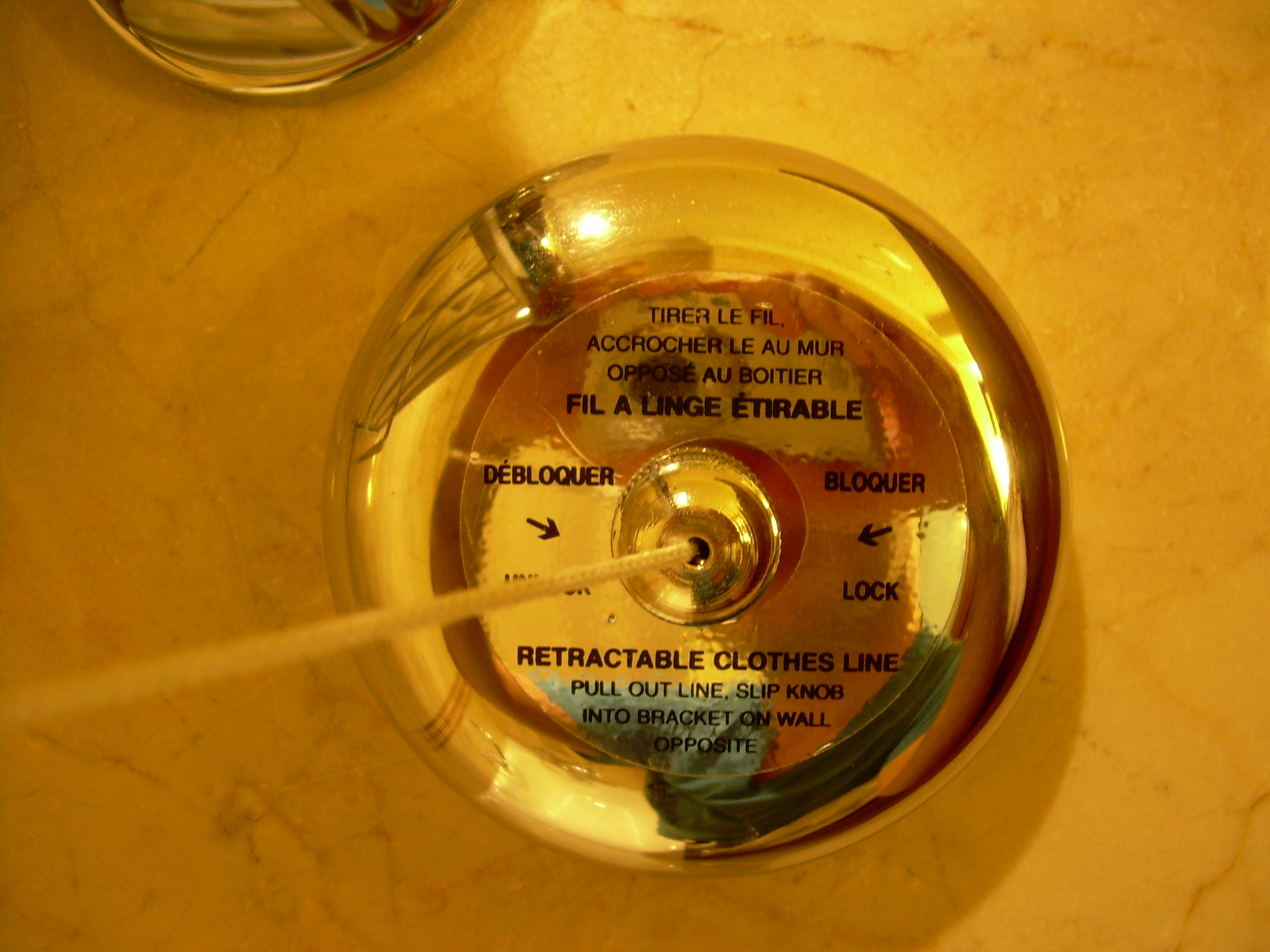 Retractable clothes line, string-part